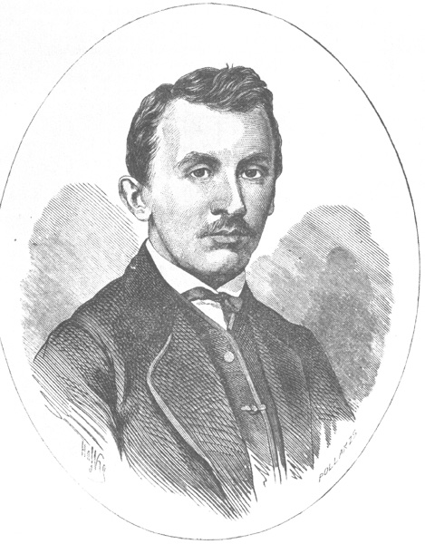 Portrait of Svetozar Marković Drawing by Ferenc Haske, engraving by Zsigmond Pollák